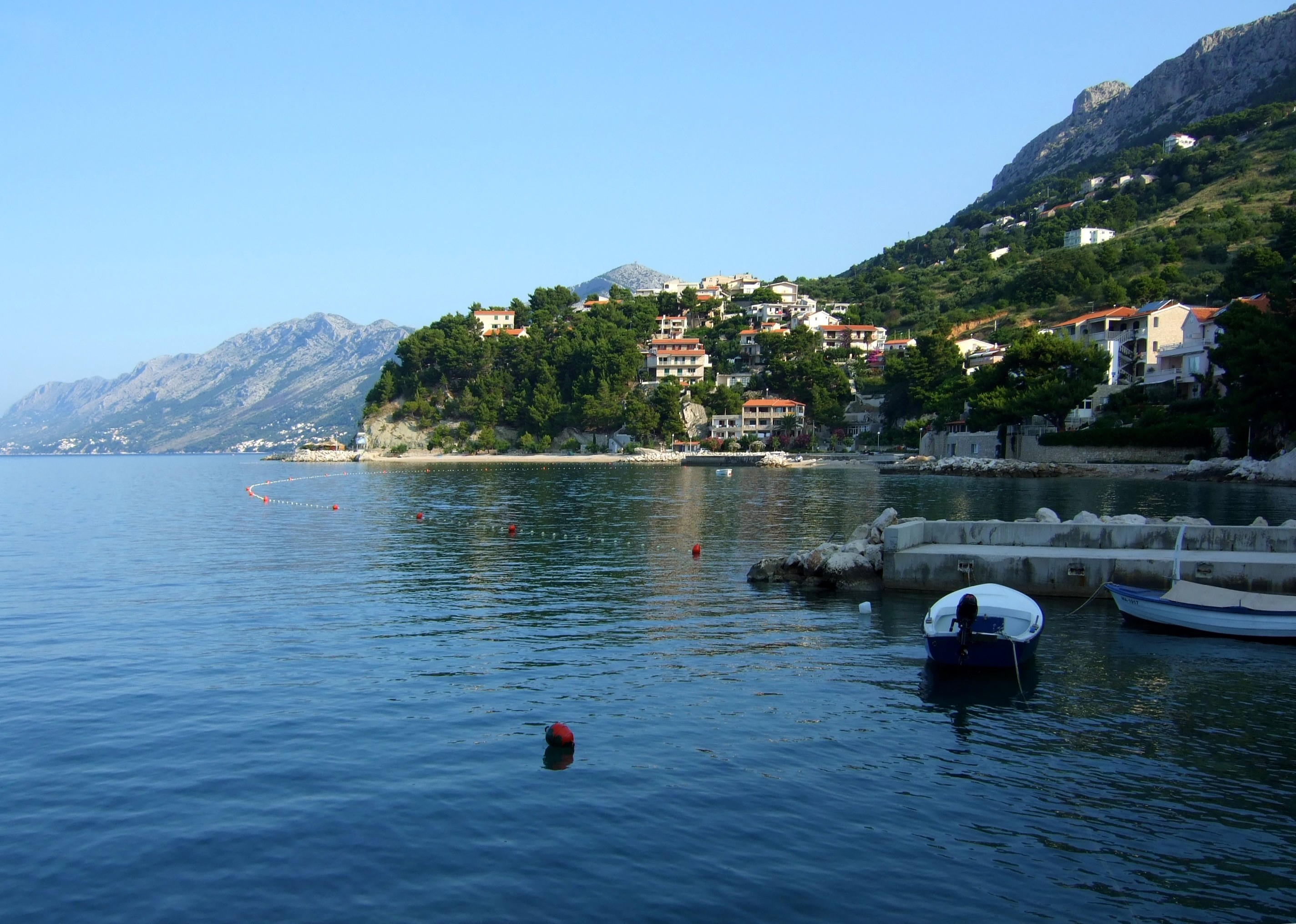 Western shore of Brela, Croatia.